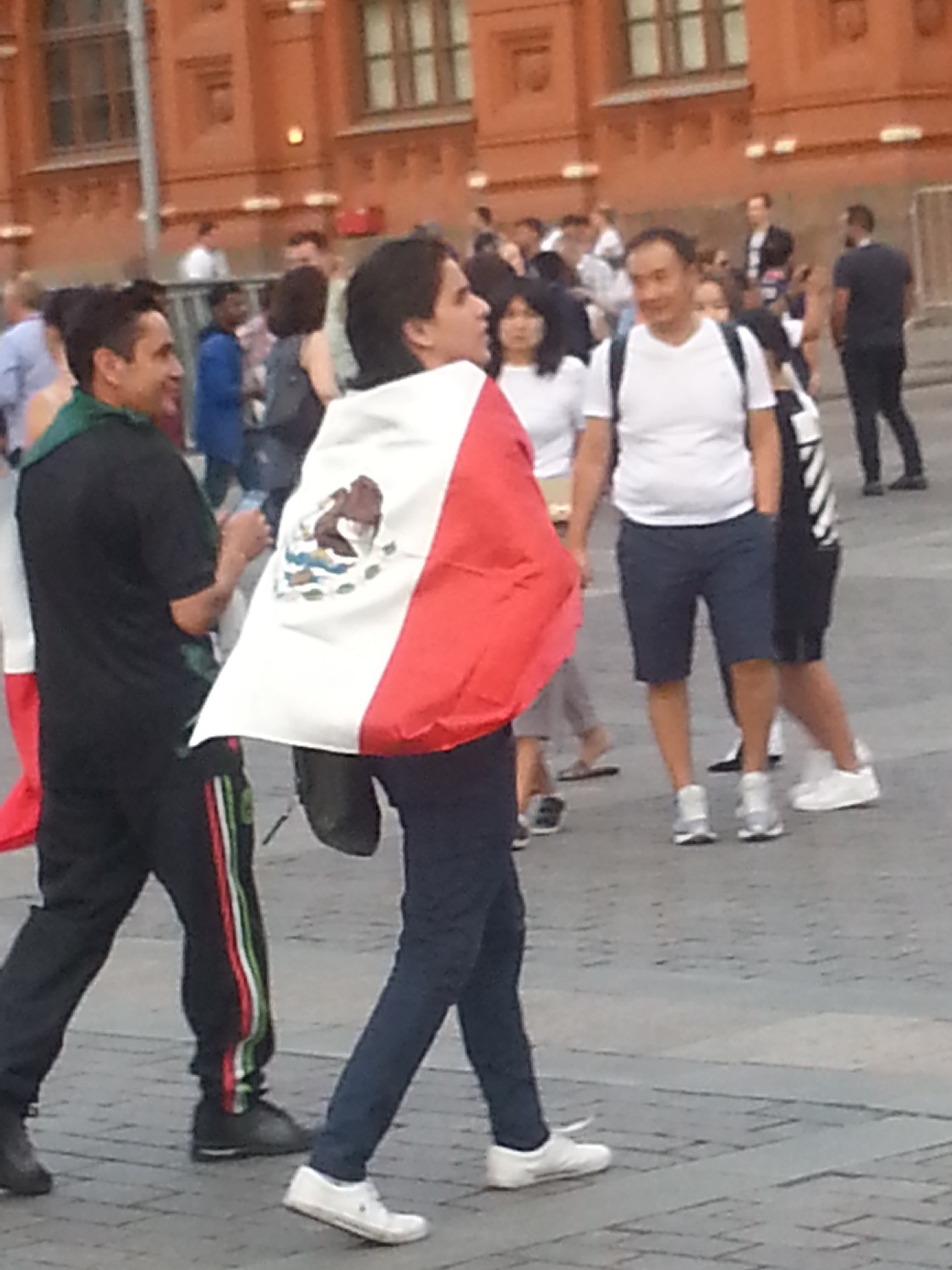 Mexican fans near the Red Square in Moscow during the World Cup 2018 in Russia.